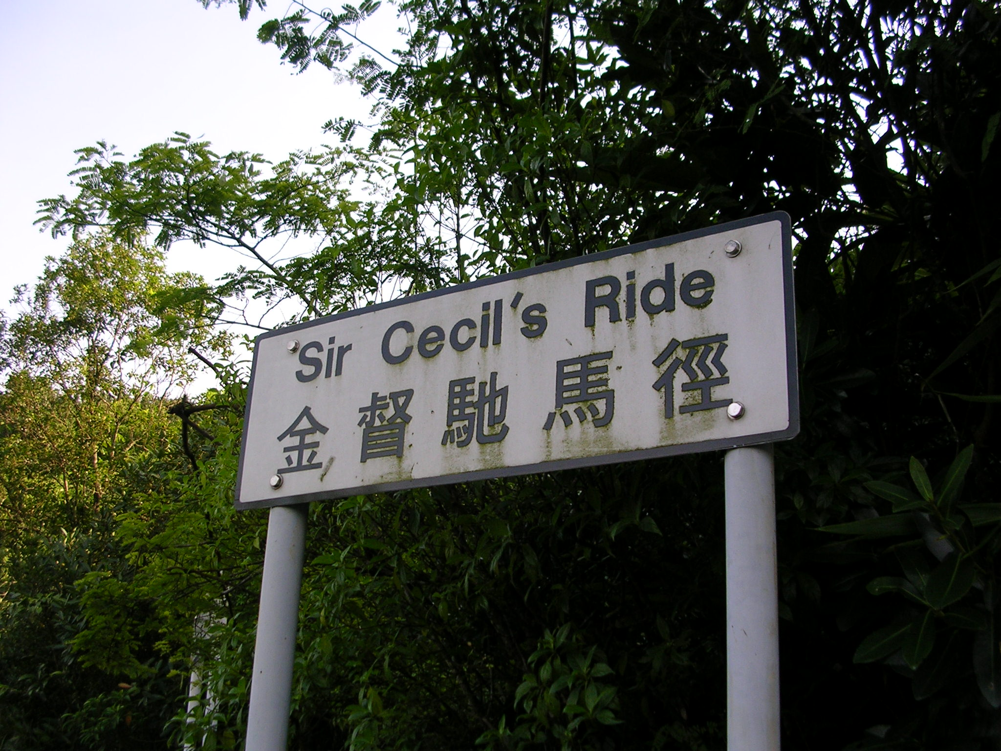 SIR CECIL'S RIDE